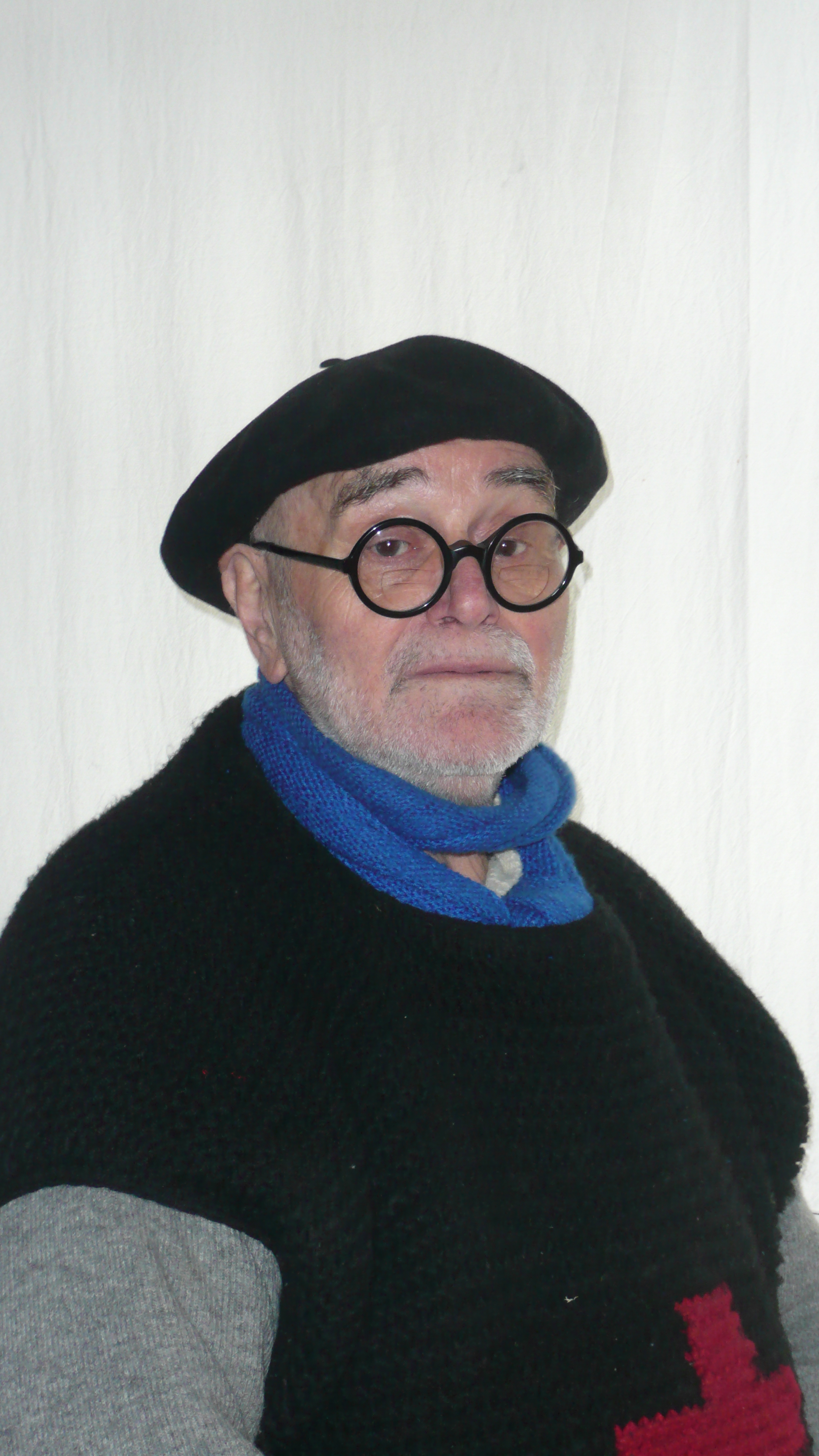 Willy L. Bitter, Sculptor